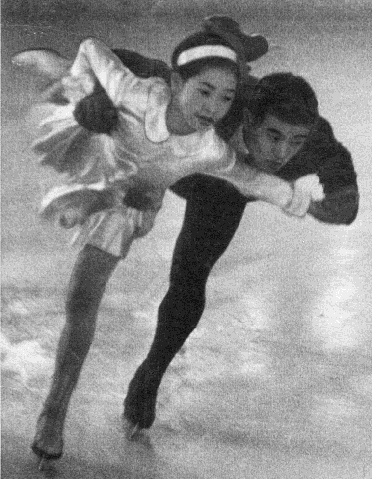 Etsuko Inada and Toshiichi Katayama perform during the exhibition gala of a figure skating competition at Asahi Building Skate Center on April 4, 1937 in Osaka, Japan.